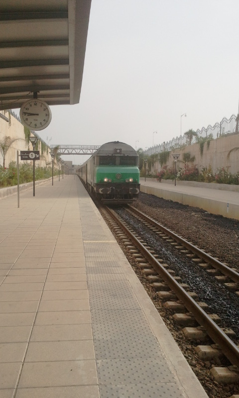 Train to Fes arriving at Nador Ville train station